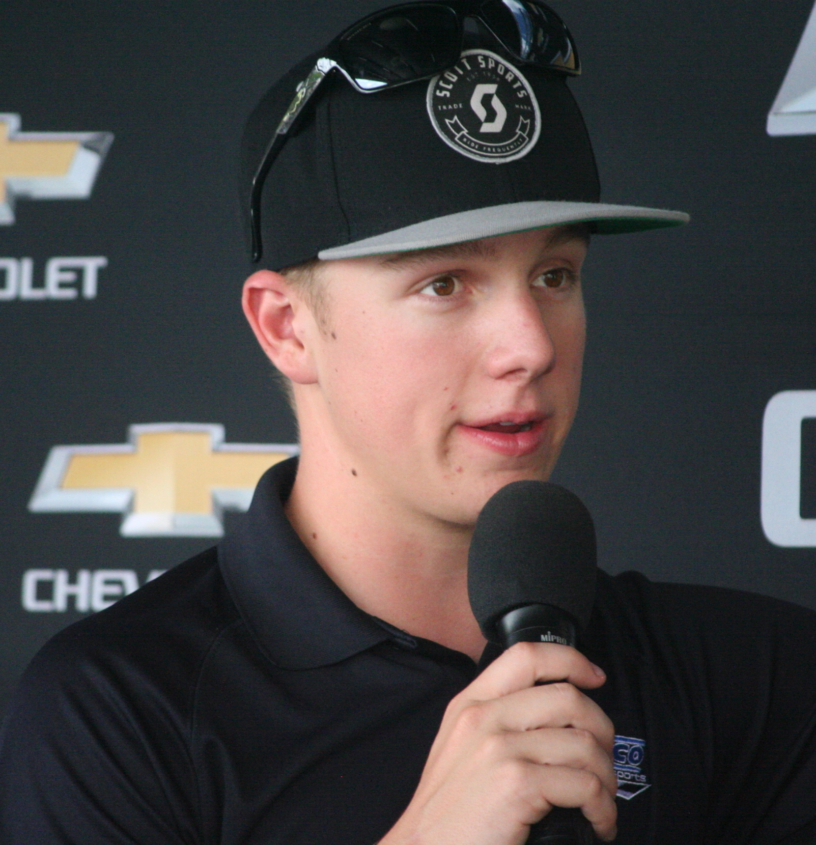 John Hunter Nemechek being interviewed at the Bristol Motor Speedway (Bristol, Tennessee) in August 2015